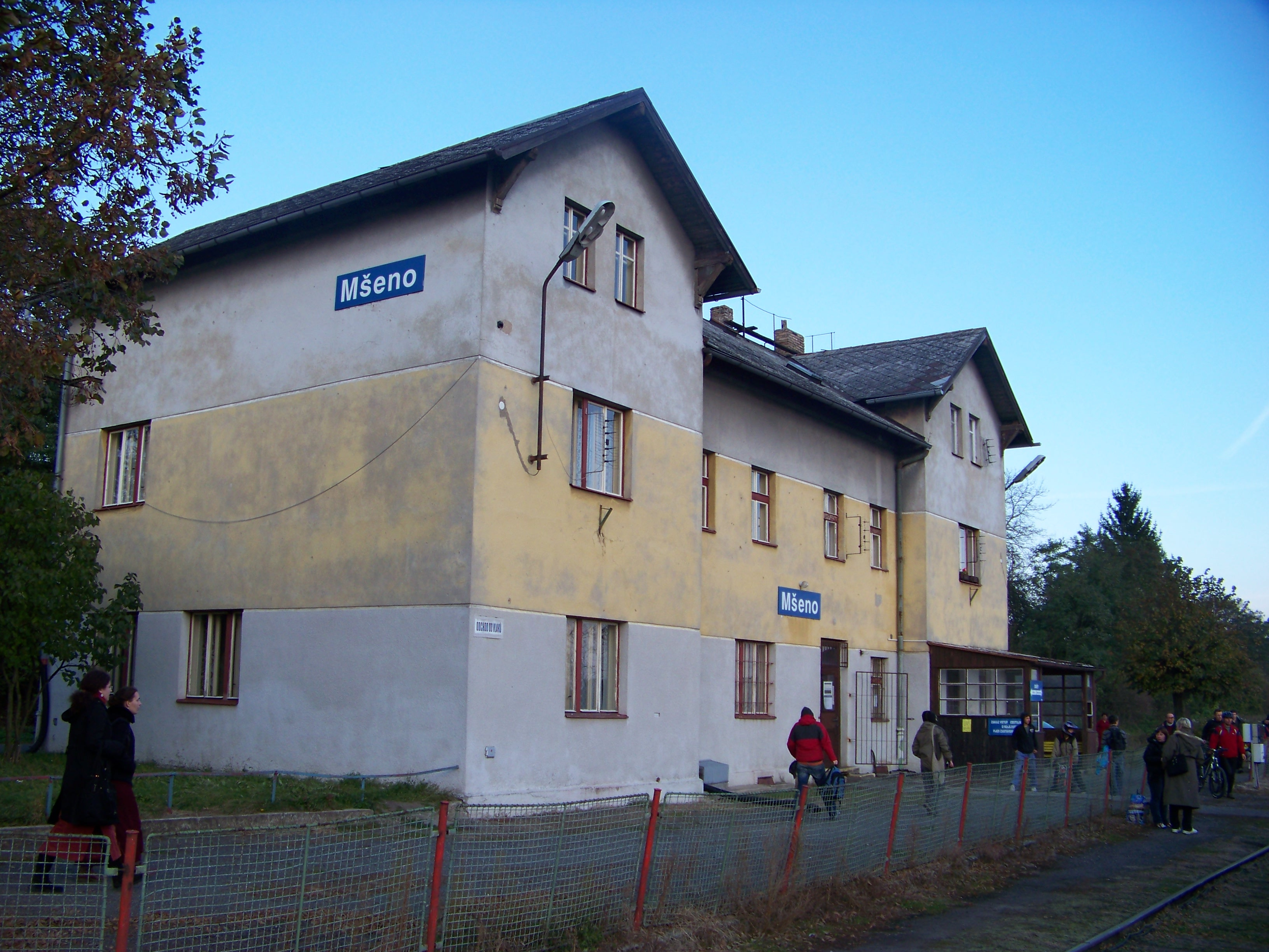 Mšeno, Mělník District, Central Bohemian Region, the Czech Republic. Train station Mšeno. - Google Maps - Google Earth